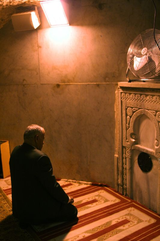 This doesn't look like one of the holiest spots in Islam, but it is. This niche indicating the qiblah (the direction of Mecca) is in a small cavern underneath the rock from which the Prophet Muhammad is believed to have ascended to heaven, which is inside the Dome of the Rock mosque. Jerusalem, January 2008